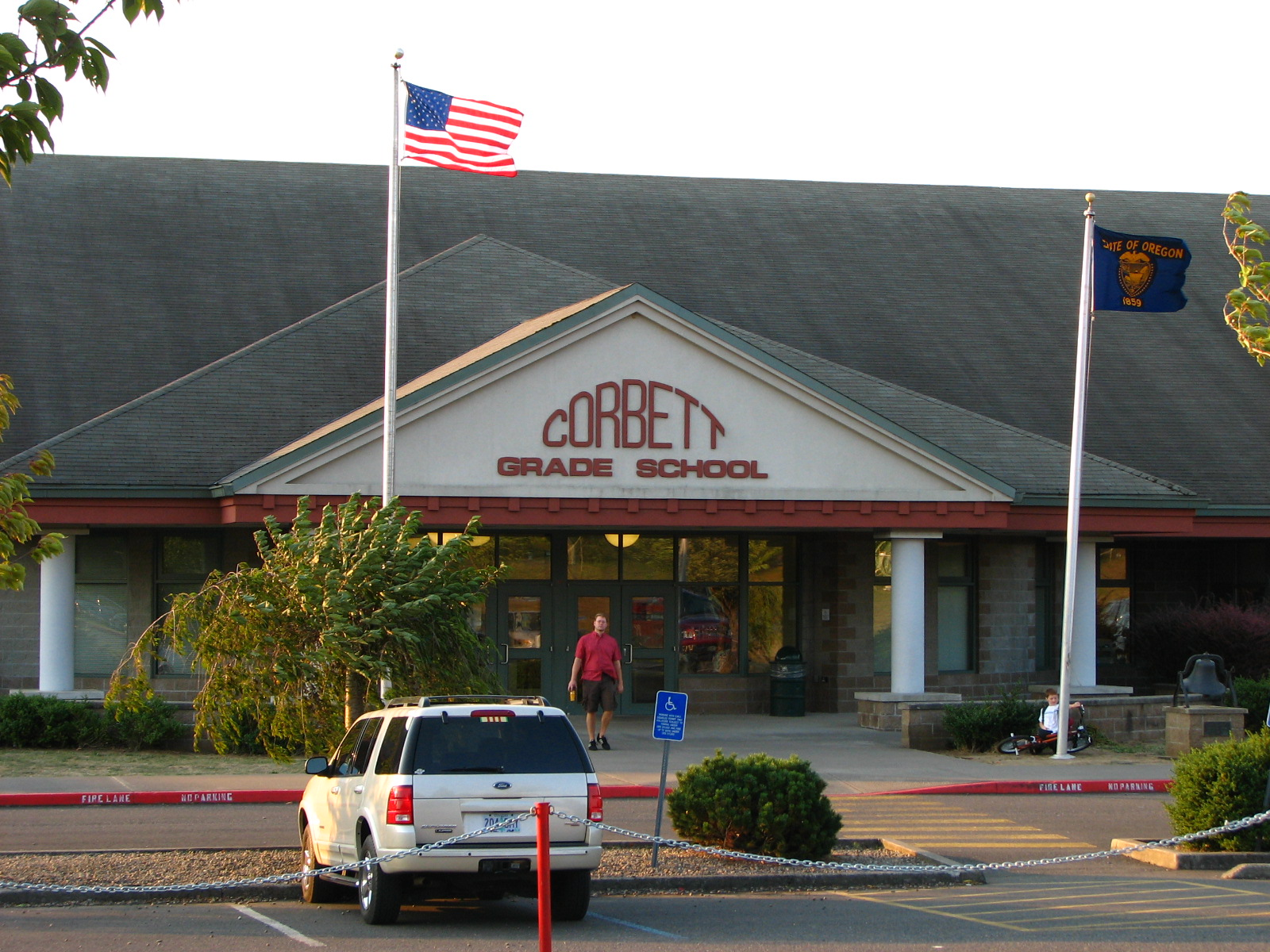 High-flying flags at Corbett Grade School in Corbett, Oregon, United States, illustrate the Corbett area's signature east wind. Strong east winds are a common phenomenon in the Columbia River Gorge.